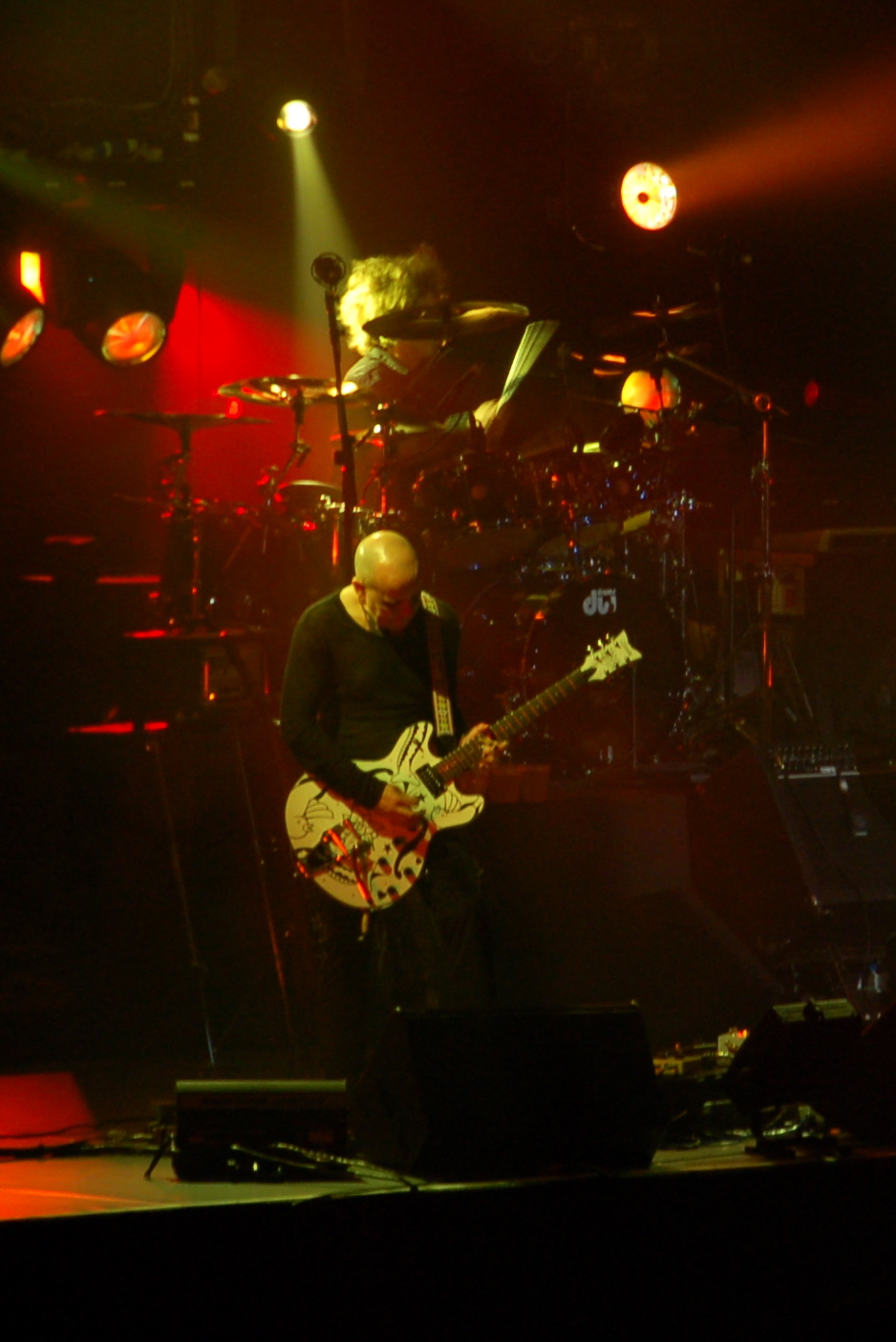 Porl Thompson playing electric guitar during a performance by The Cure in Singapore